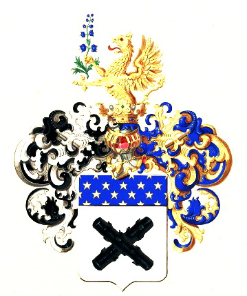 Coat of Arms of Knorre family